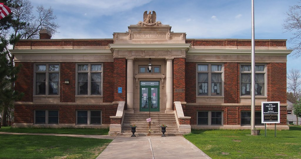 Buhl Public Library, 400 Jones Ave, Buhl, Minnesota, USA. Viewed from the south-southwest.